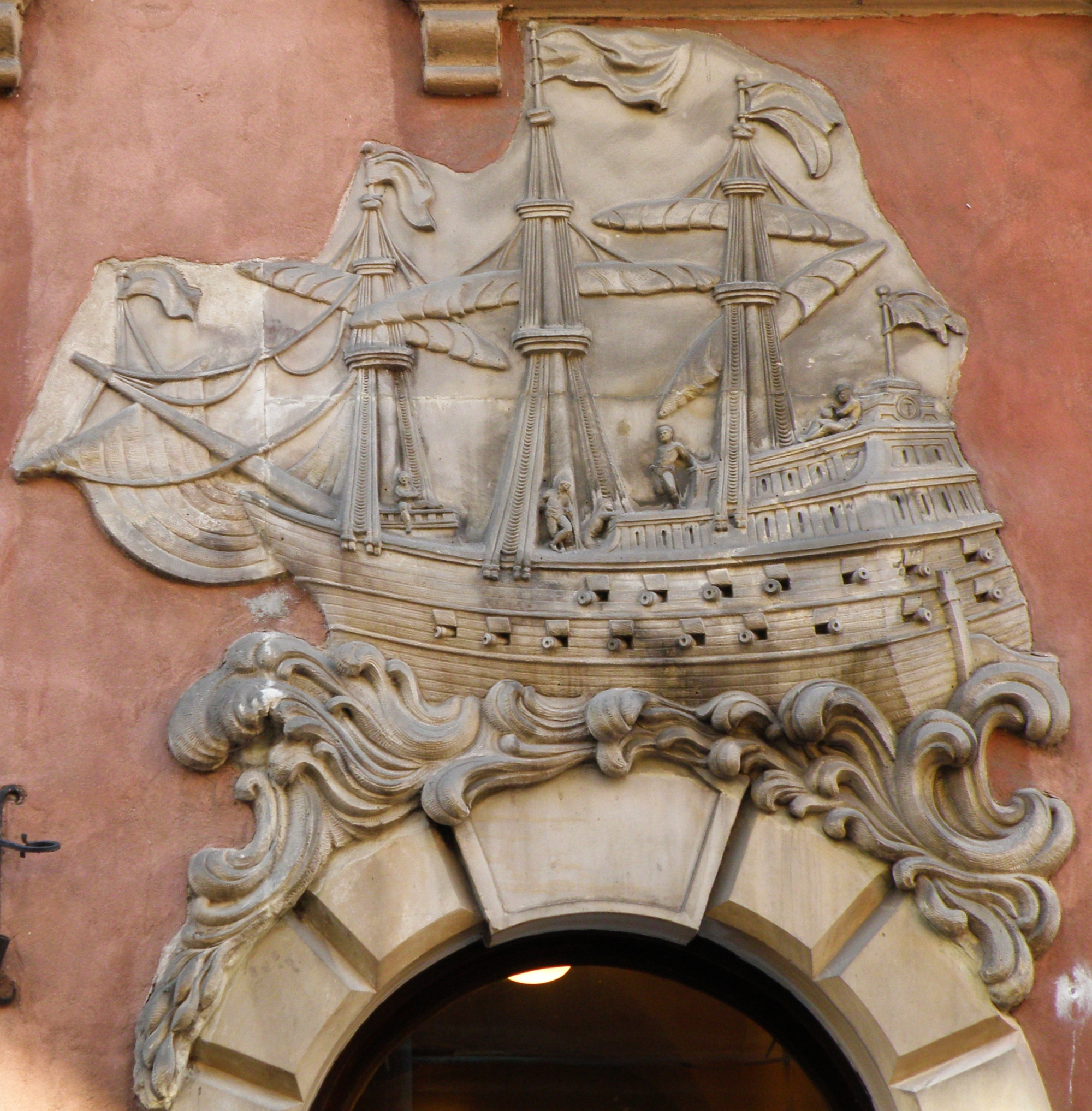 Poland, Świętojańska Street in Warsaw